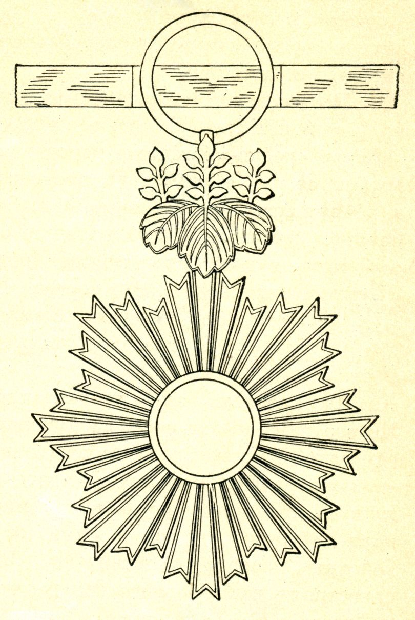 Order of the Rising Sun, 1st Class. Image from the book "Japan And Japanese" (1902). Page 47